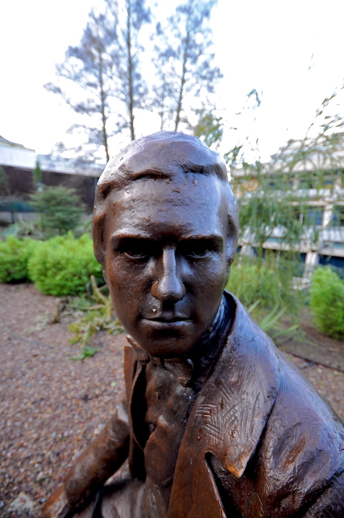 Charles Darwin Bicentenary Statue by Anthony Smith in Cambridge/UK